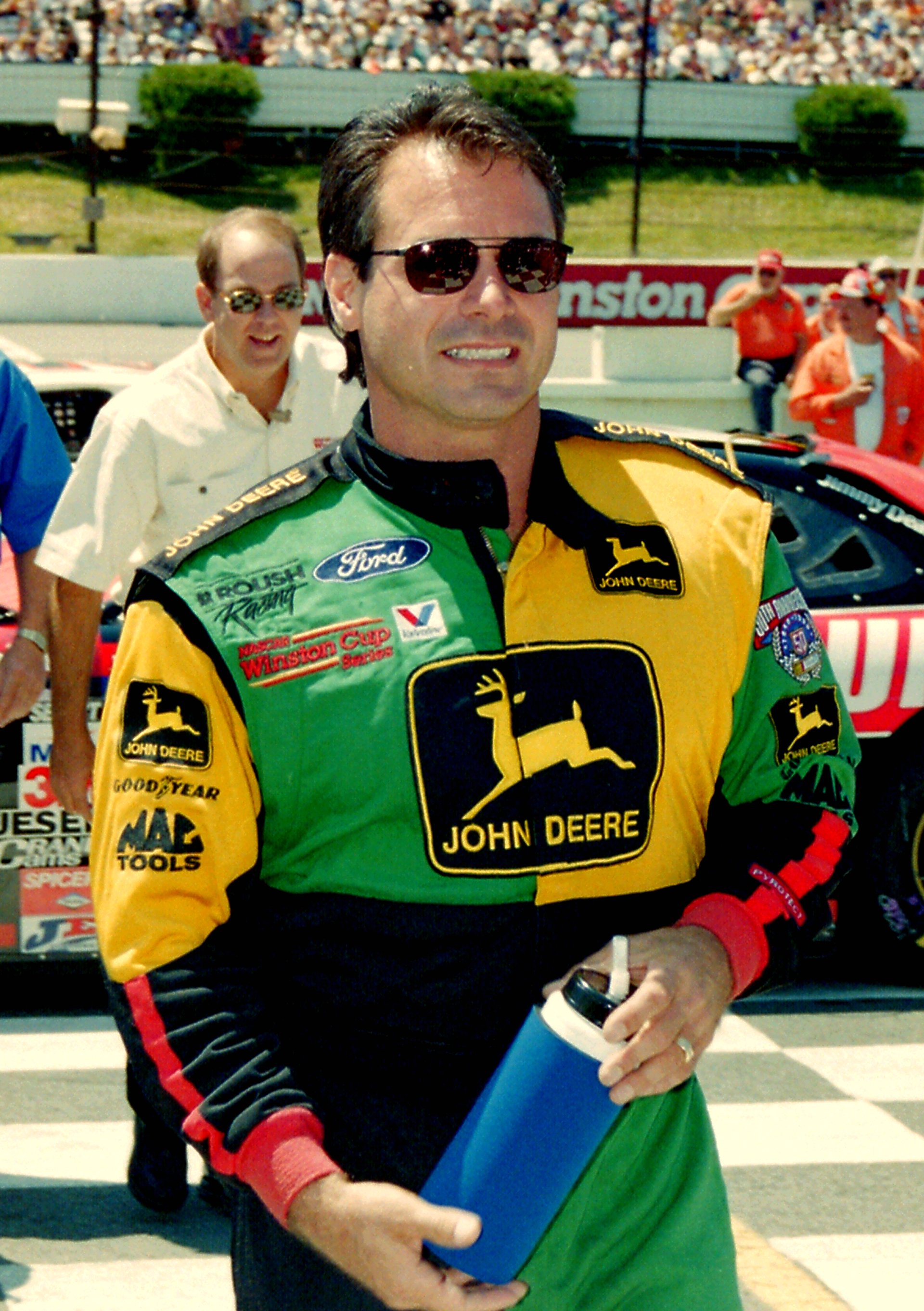 NASCAR driver Chad Little in 1998.